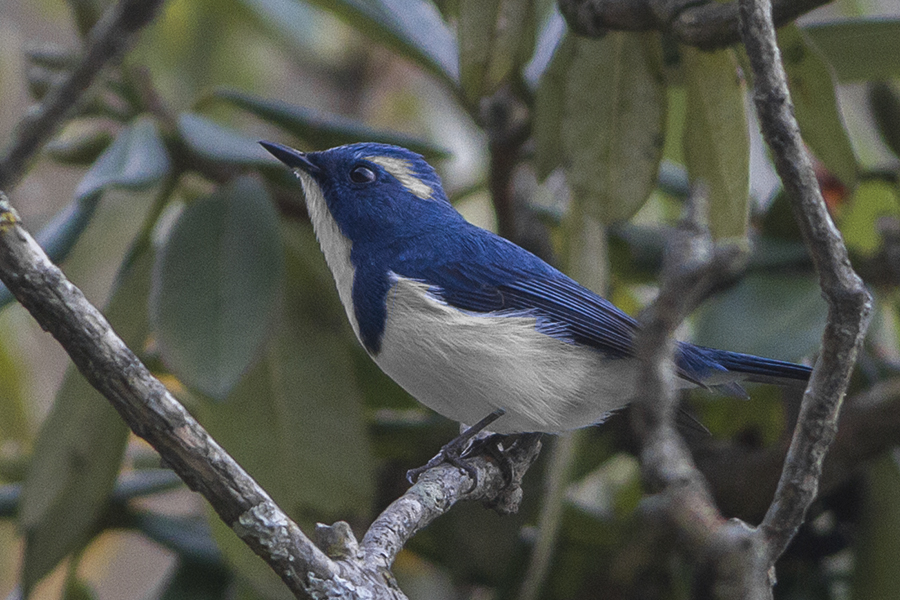 The specie Ultramarine Flycatcher had been photographed at Pangot village of Nainital district of Uttarakhand, India on 04.10.2014. during the birding trip of GoingWild.